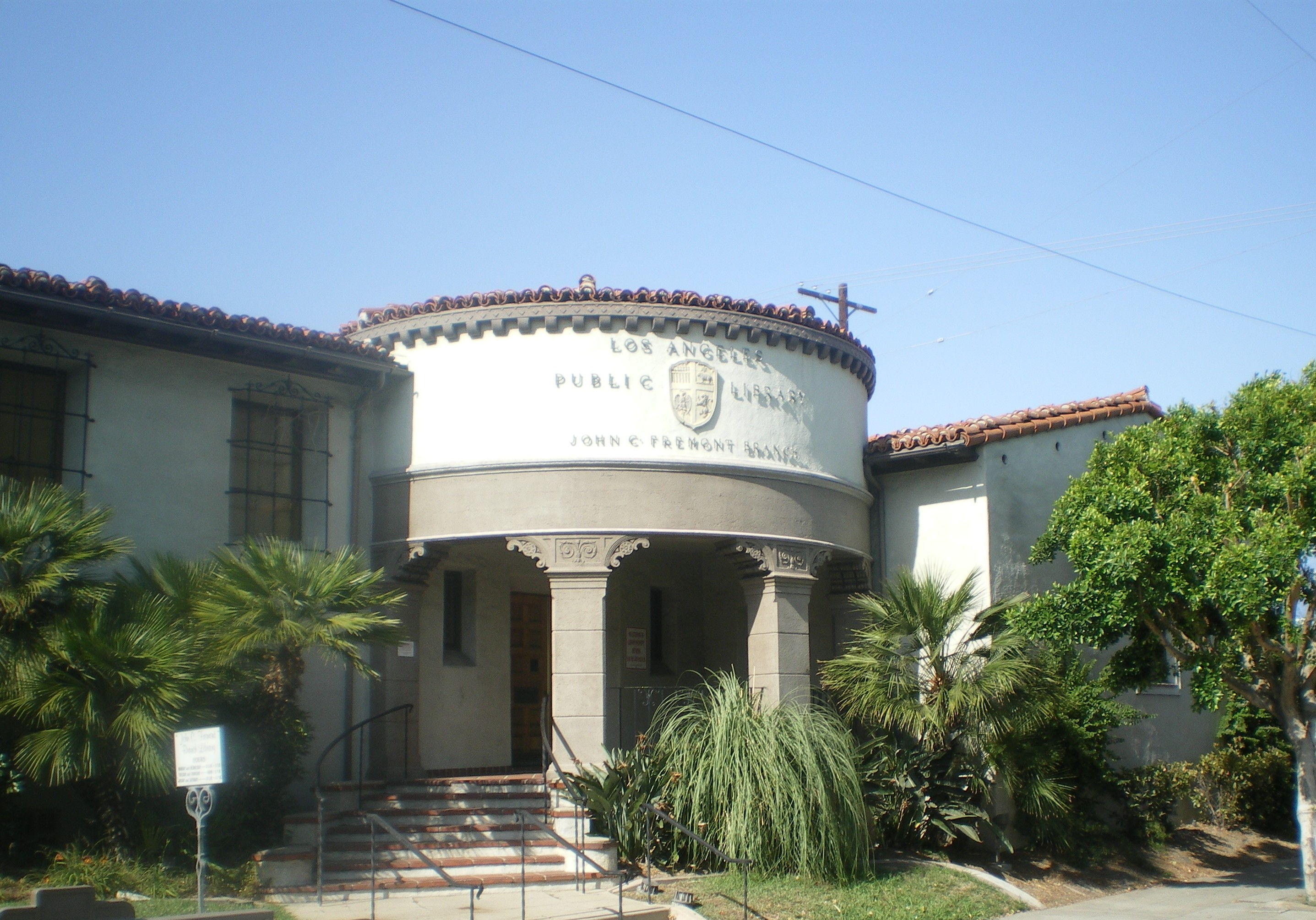 John C. Fremont Branch Library, 6121 Melrose Ave., Los Angeles, California